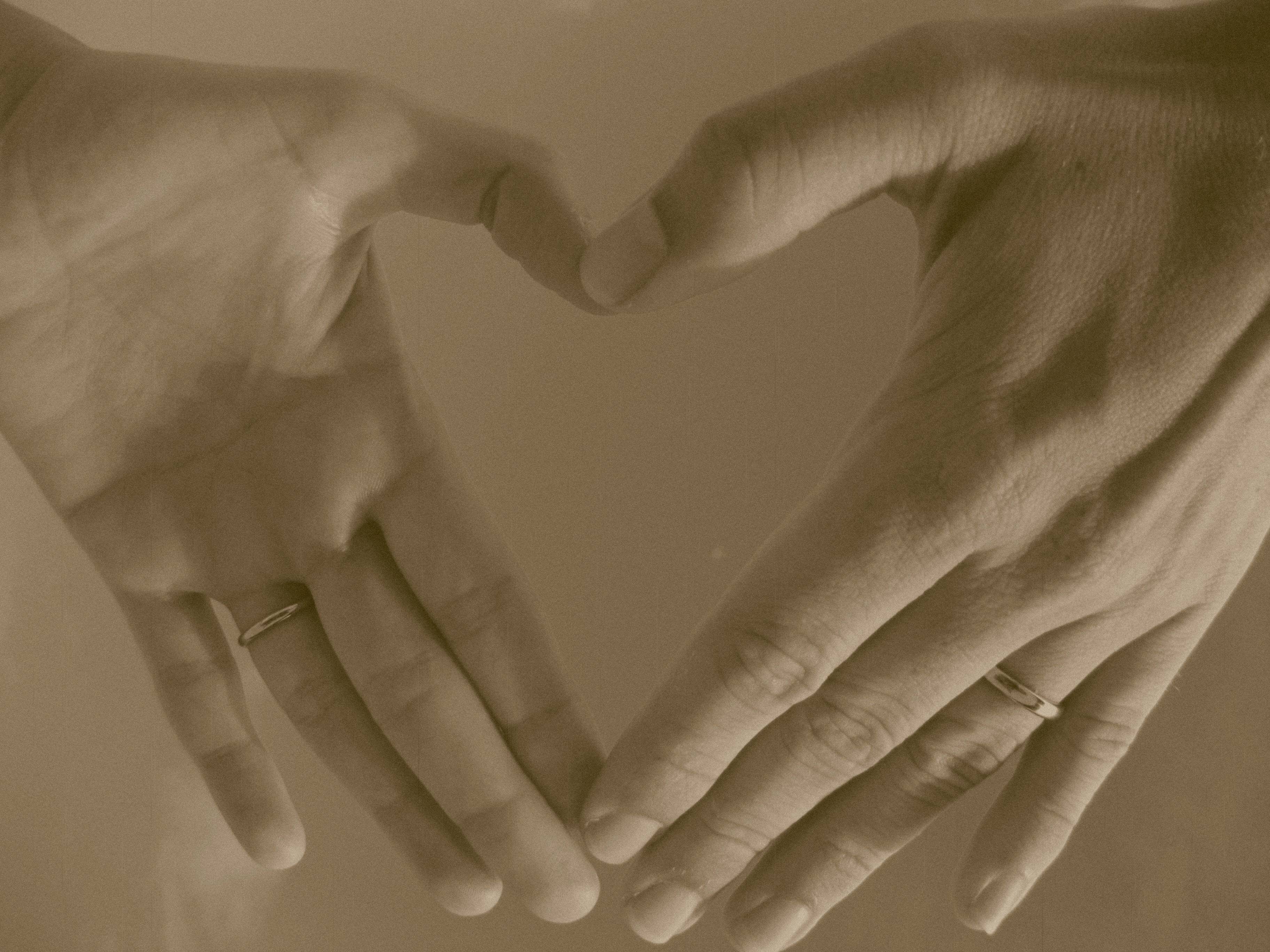 Two left hands forming an outline of a heart shape. Both hands are wearing a similar wedding ring. Grain and colour sepia.